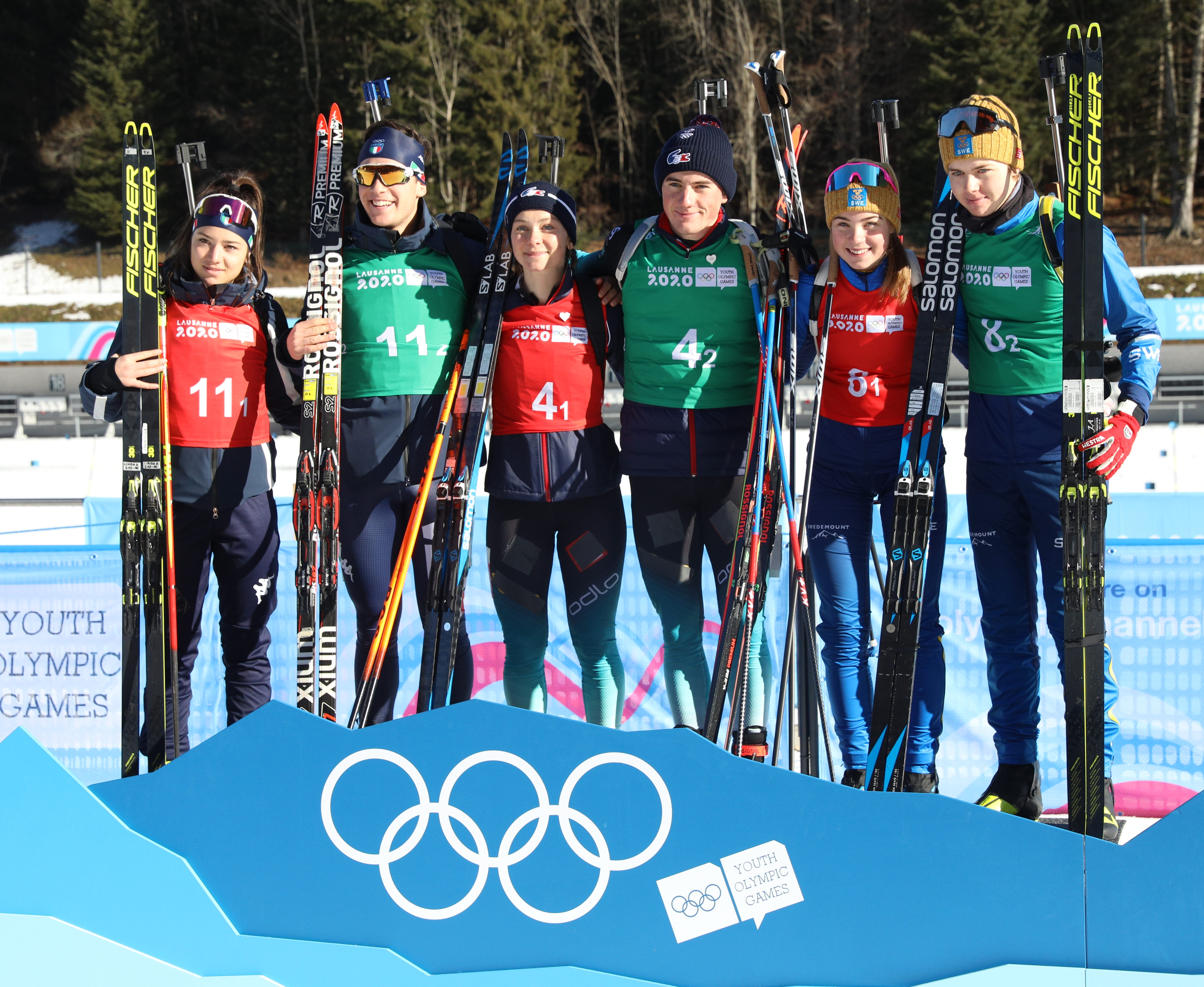 Biathlon Single Mixed Relay at the 2020 Winter Youth Olympics in Lausanne